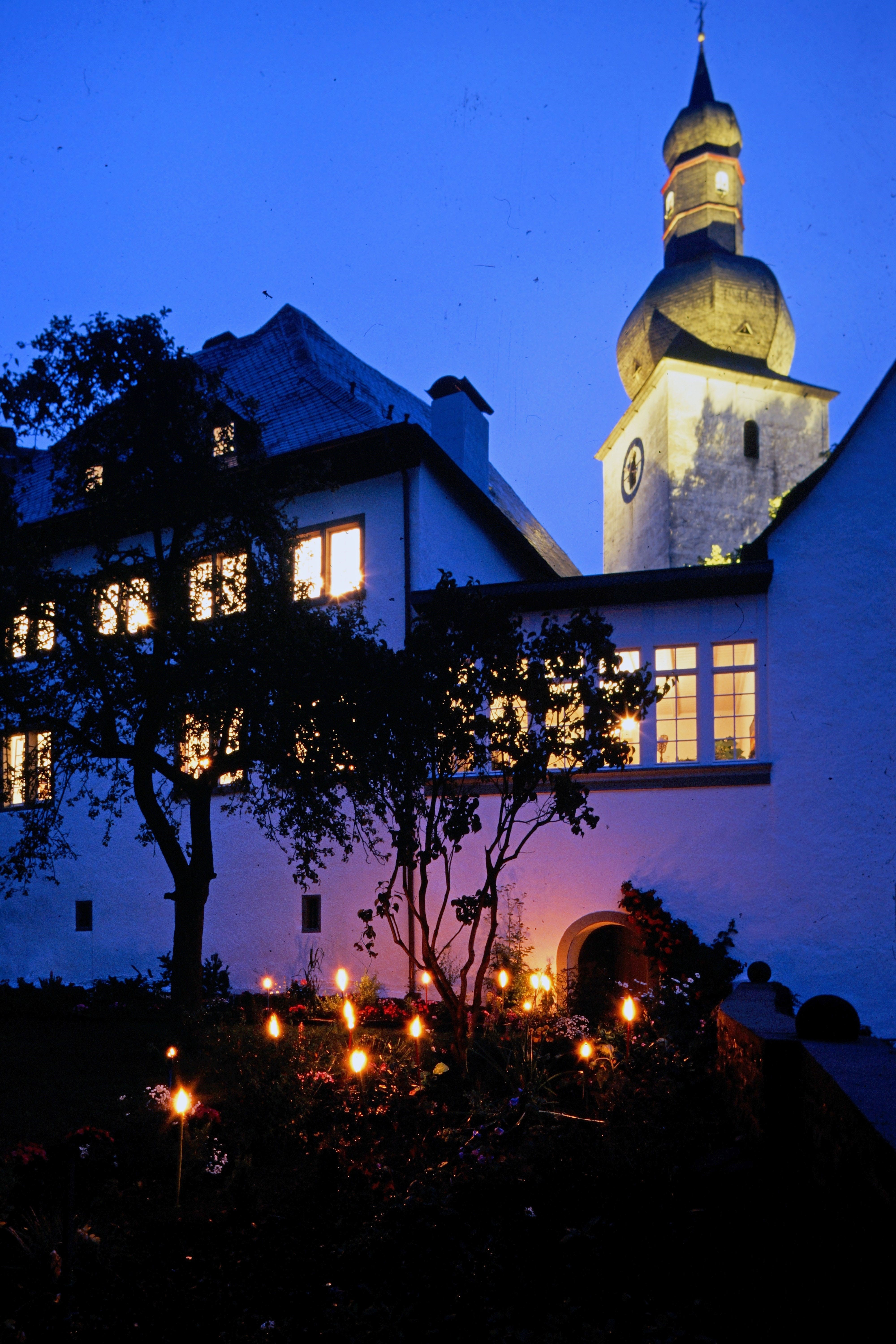 At night from the garden side